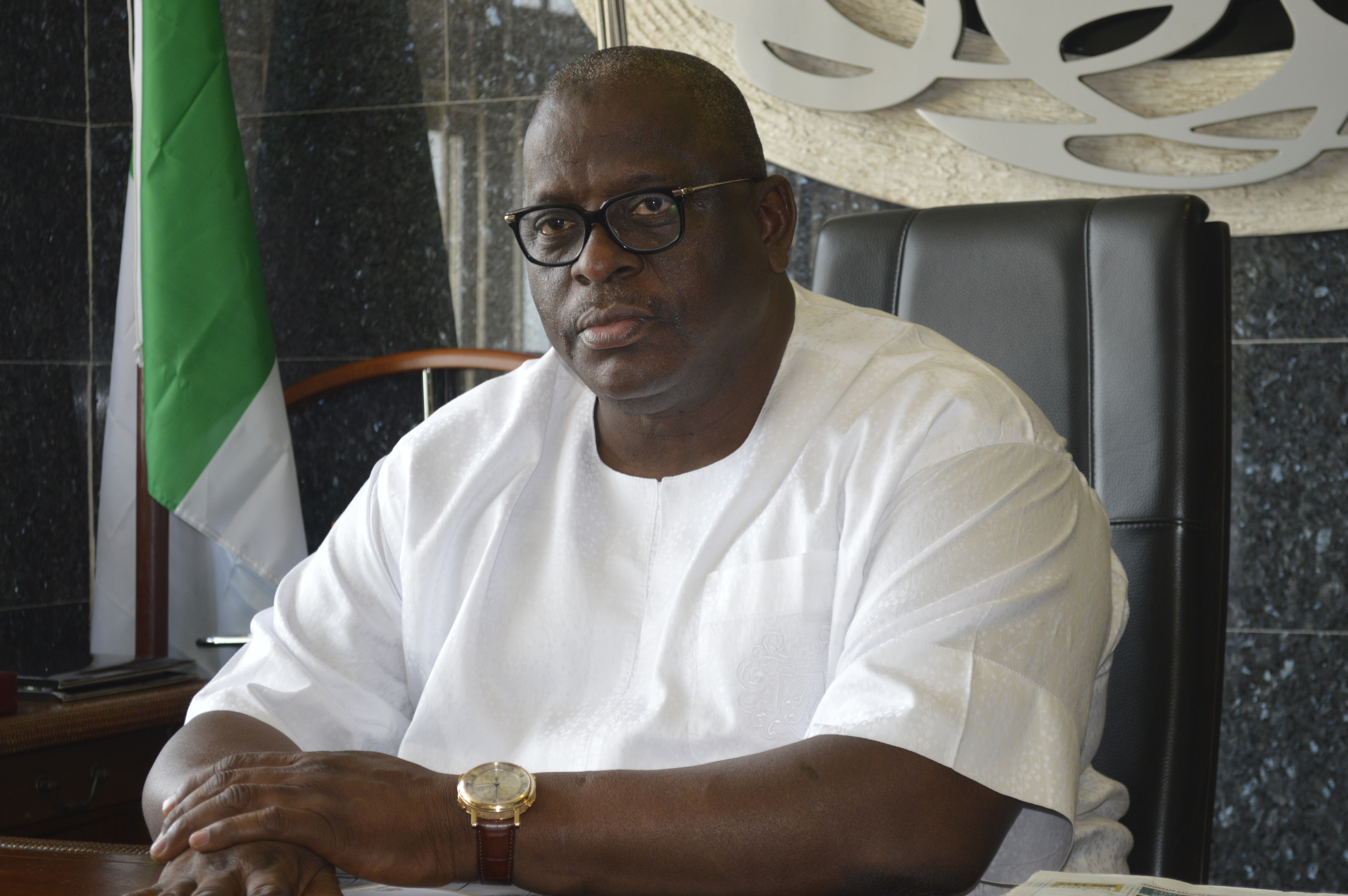 A Senator of the Republic of Nigeira